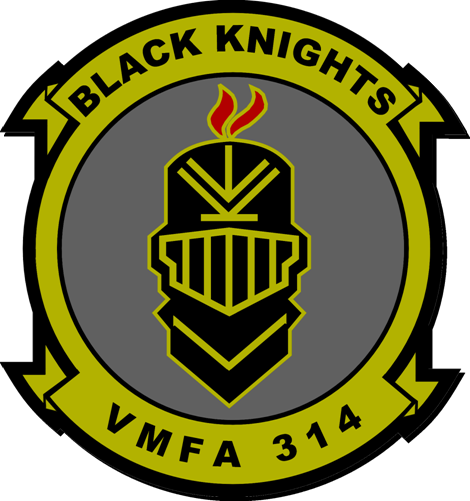 Squadron logo for VMFA-314